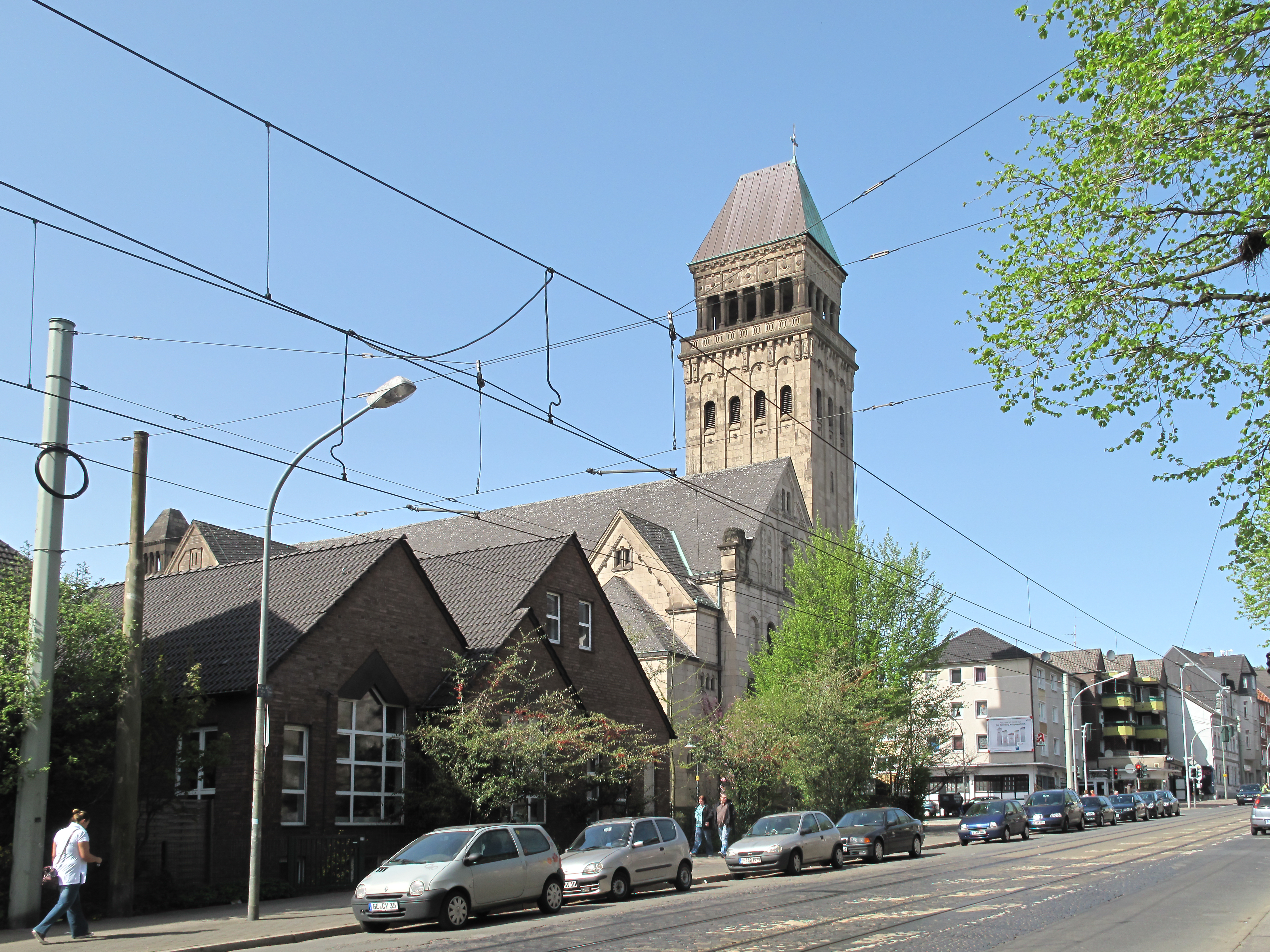 Buer, church: Sankt Ludgeruskirche